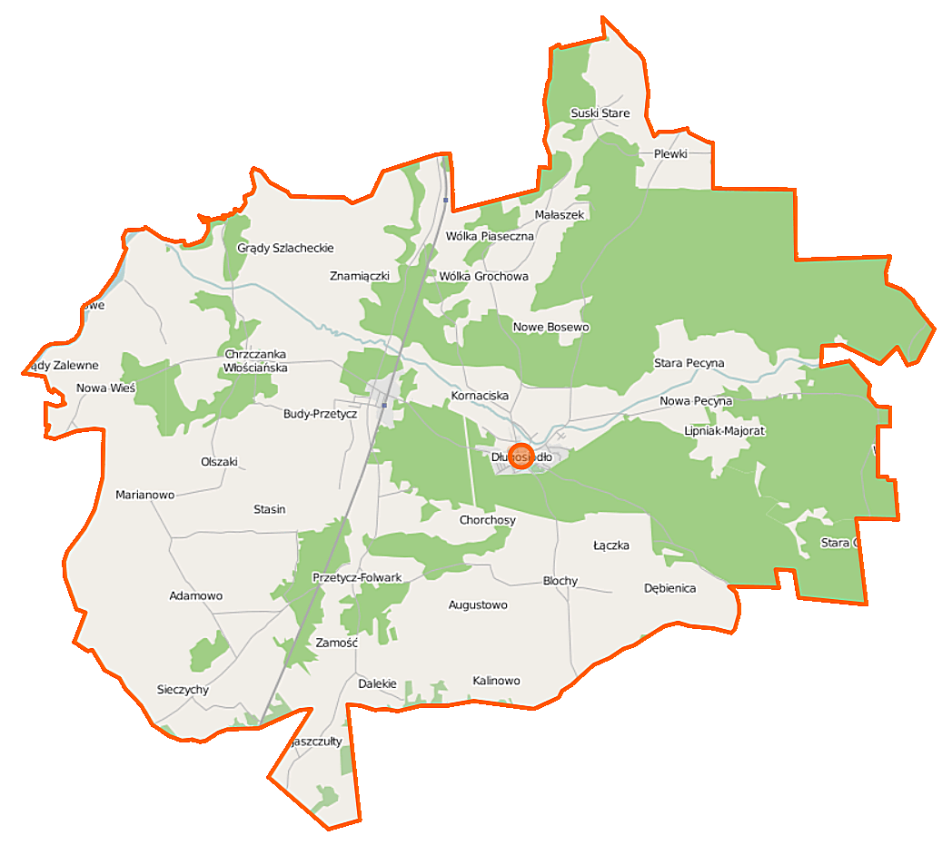 Map of Gmina Długosiodło, Poland This map of Długosiodło (gmina) was created from OpenStreetMap project data, collected by the community. This map may be incomplete, and may contain errors. Don't rely solely on it for navigation. Border coordinates52.843221.4350←↕→21.723452.6882